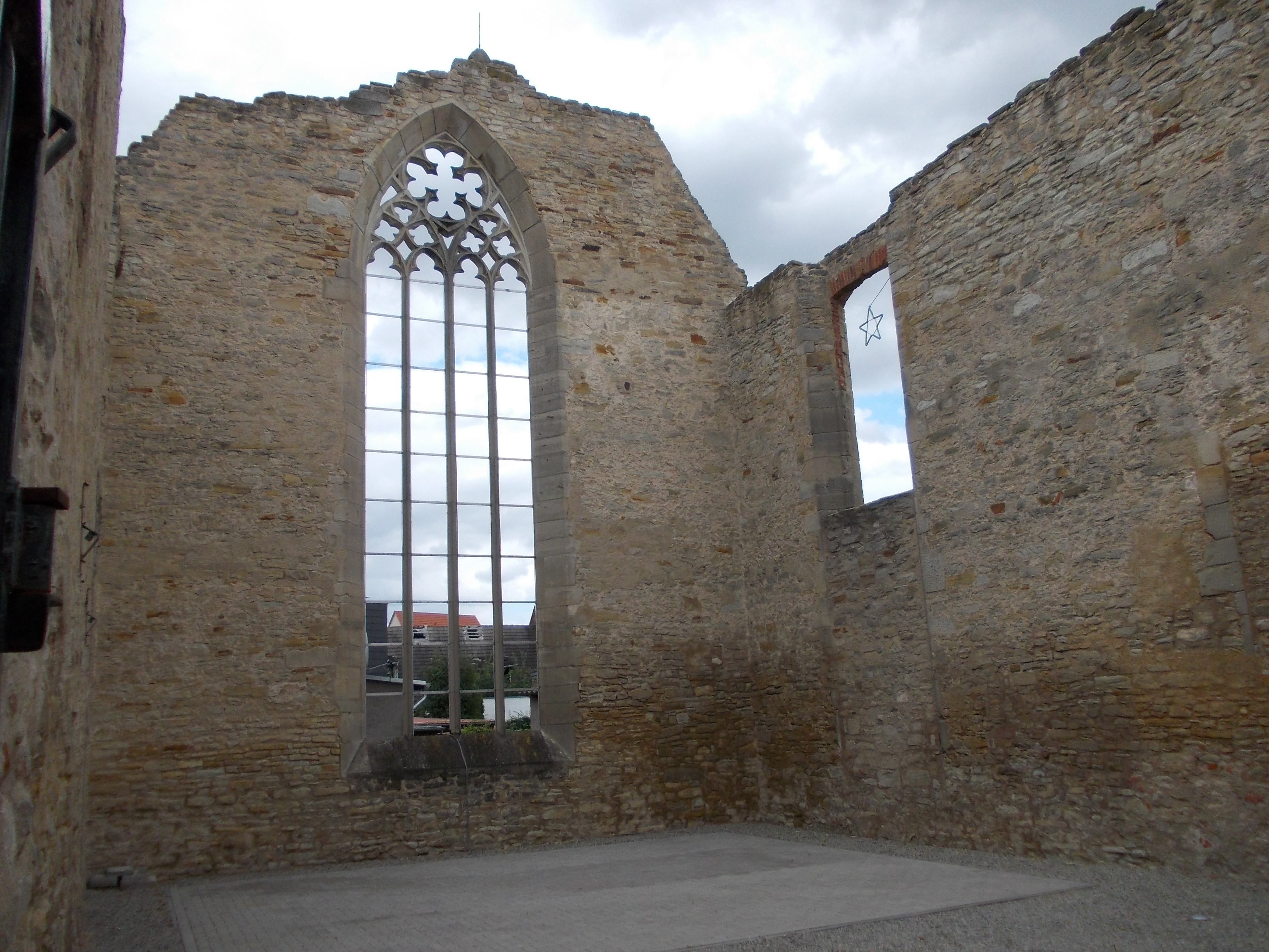 Former Servite monastery in Bernburg (district: Salzlandkreis, Saxony-Anhalt)